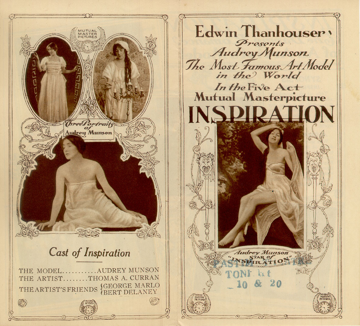 Advertisement brochure for the 1915 silent film Inspiration starring Audrey Munson and Thomas A. Curran. It was the first non-pornographic American film to show female full body nudity.